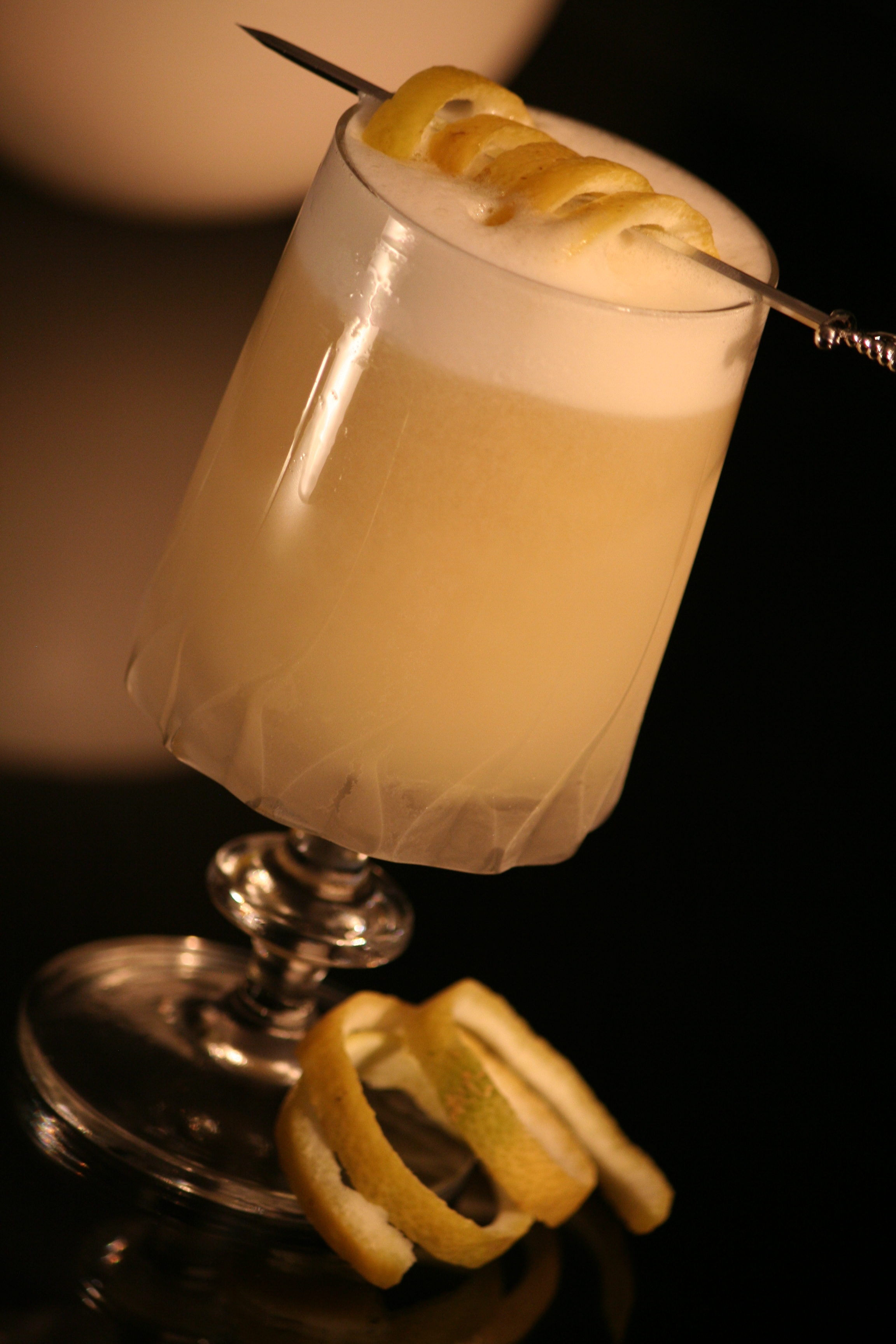 A fizz with Scotch and a egg white. In former times a typical "Pick-Me-Up-Cocktail".